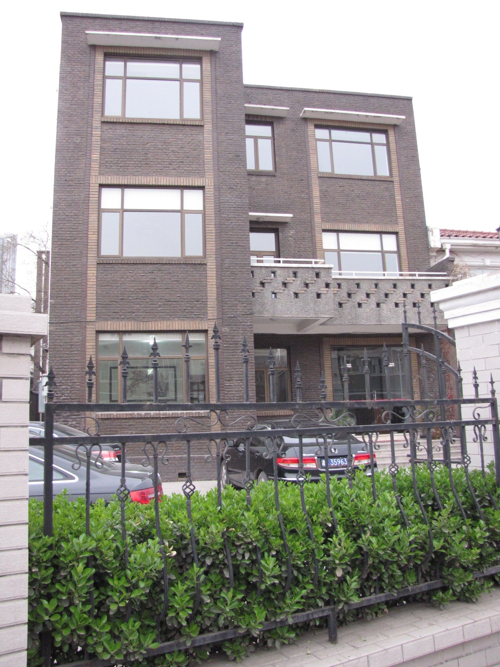 China, Tianjin, Chongqing street 38, residence of Eric Liddell from 1935 to 1941